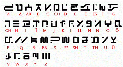 The alphabet of the visitors